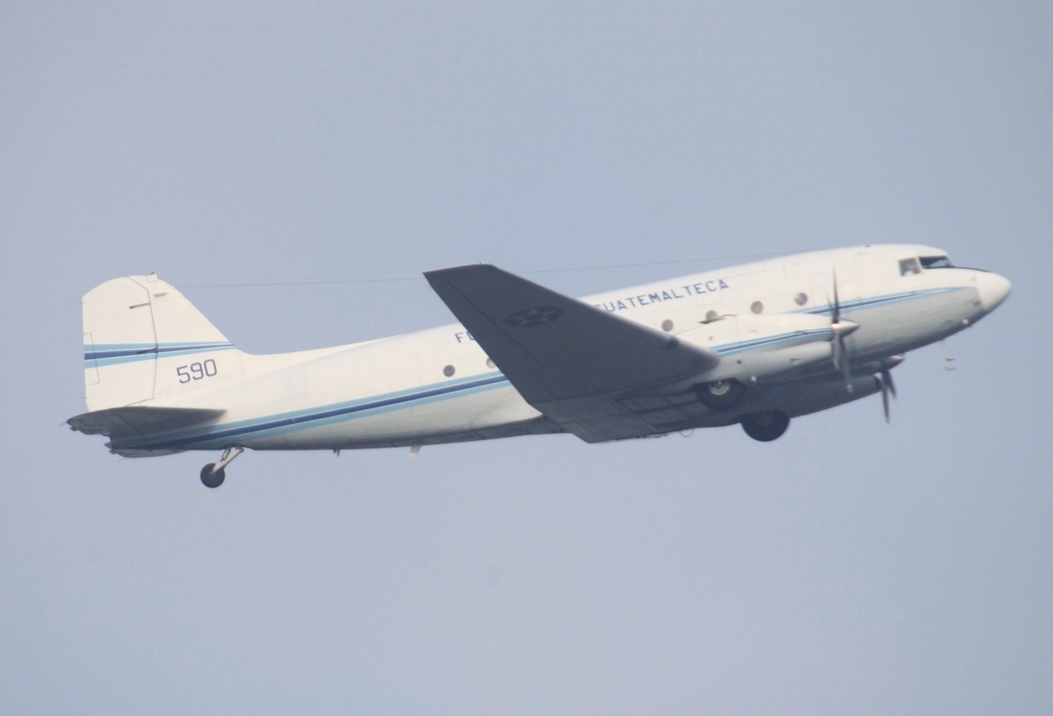 At Guatemala La Aurora International